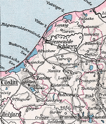 Detail from a map of Pomerania.